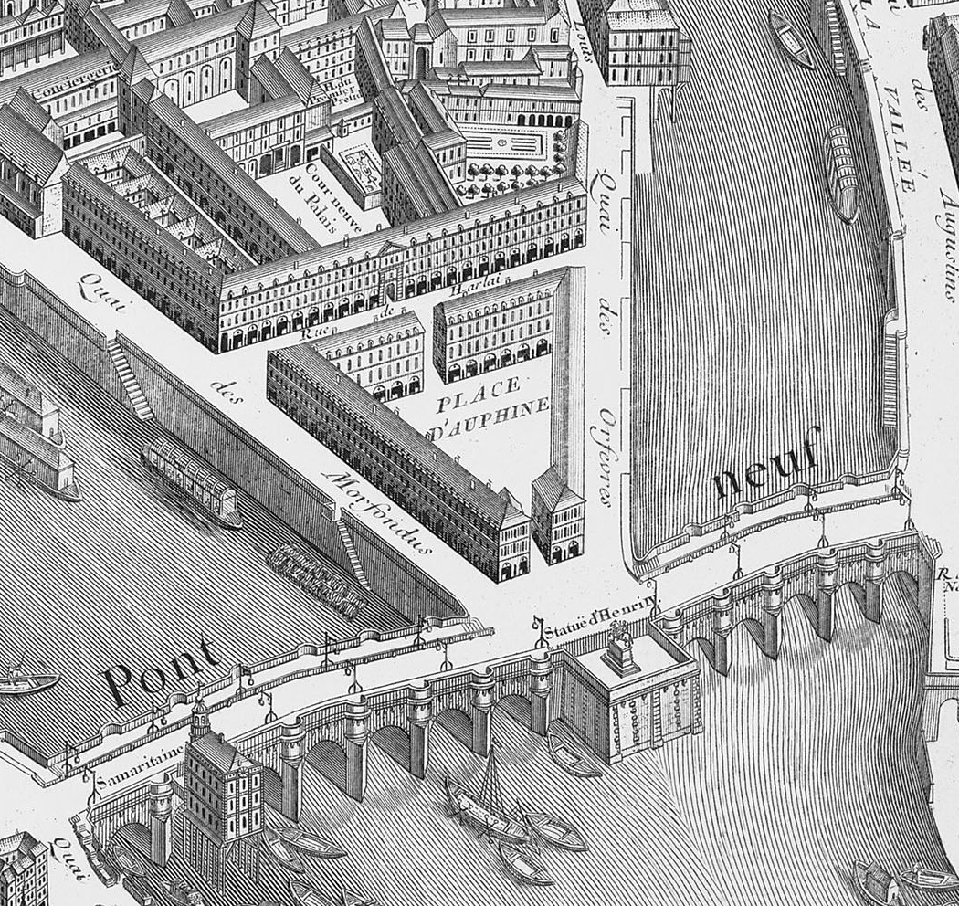 The Place Dauphine as depicted on the 1739 Turgot map of Paris